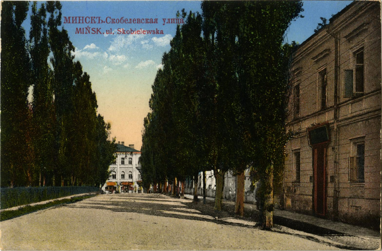 Kašarskaja street in Miensk